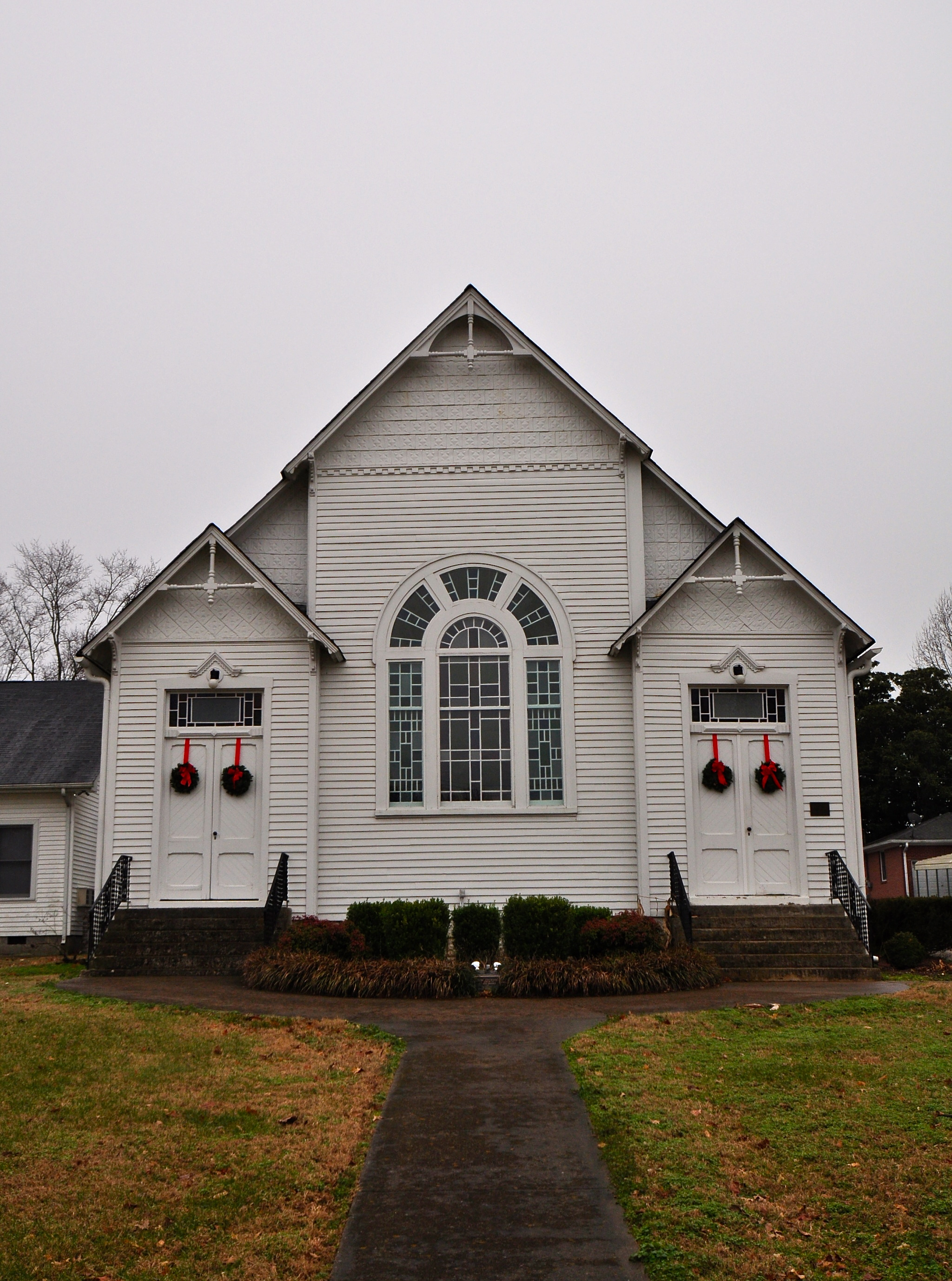 Located at Spring Hill, Tennessee.